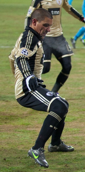 Maxi Pereira